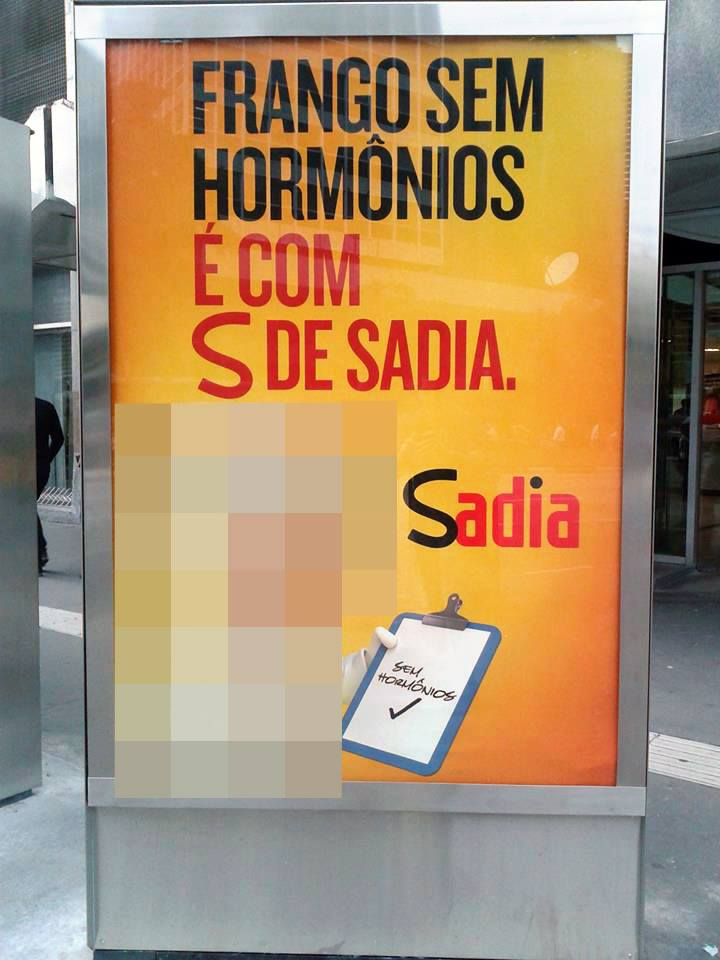 Propaganda da empresa Sadia sobre o uso de hormônios em carne de frango, na Avenida Paulista, tirada no primeiro semestre de 2014. O personagem da empresa foi distorcido para não violar direitos autorais.